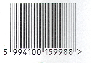 Hungarian barcode